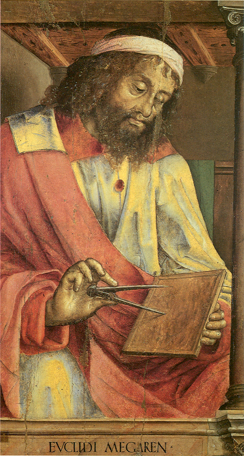 "Euclid of Megara" (lat: Evklidi Megaren), Panel from the Series 'Famous Men', Justus of Ghent, about 1474, Panel, 102 x 80 cm, Urbino, Galleria Nazionale delle Marche. This picture is meant to represent the famous mathematician Euclid of Alexandria, who was, in medieval times, wrongly identified with Euclid of Megara, the disciple of Socrates.